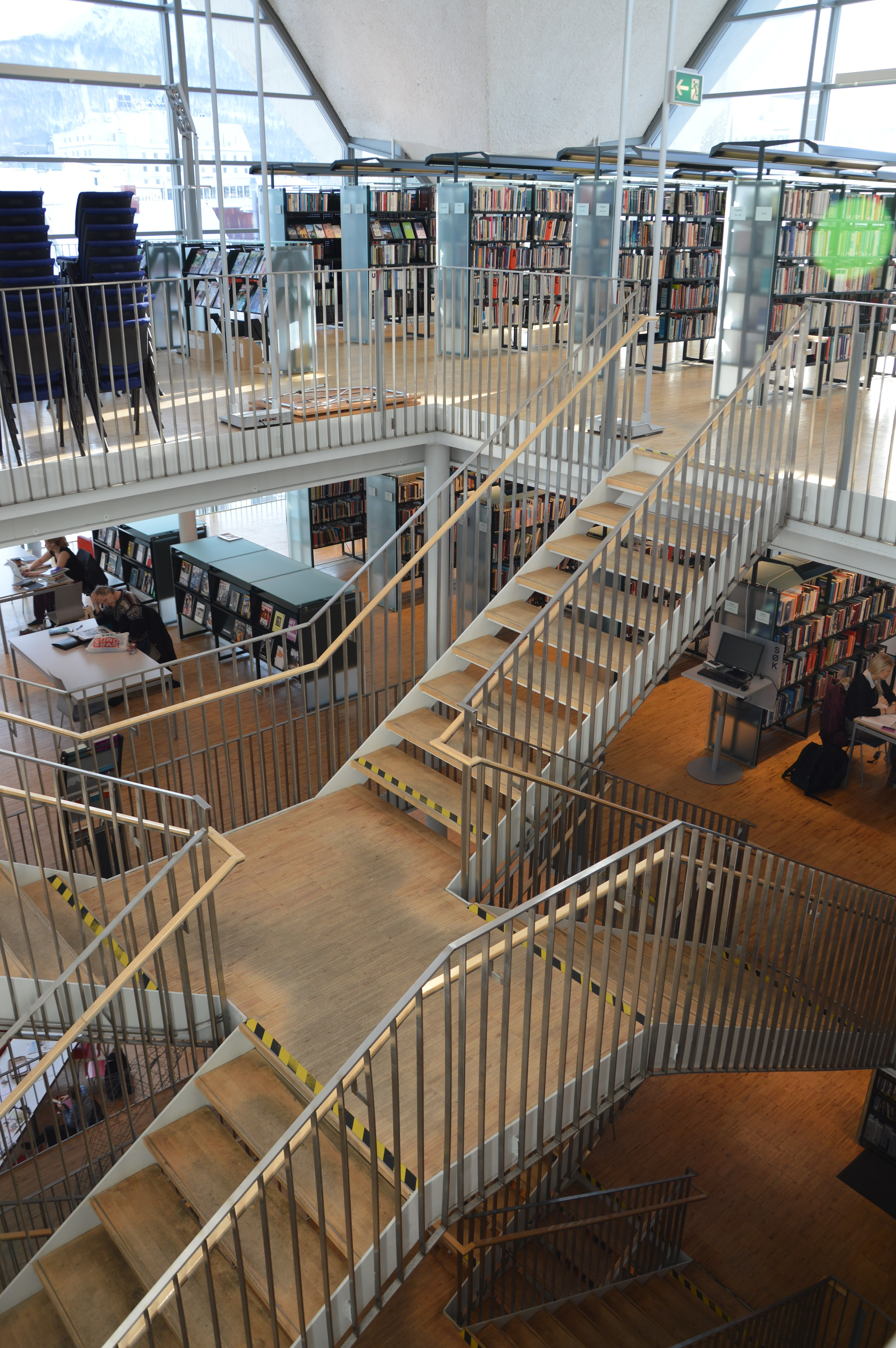 Interior of Tromsø library